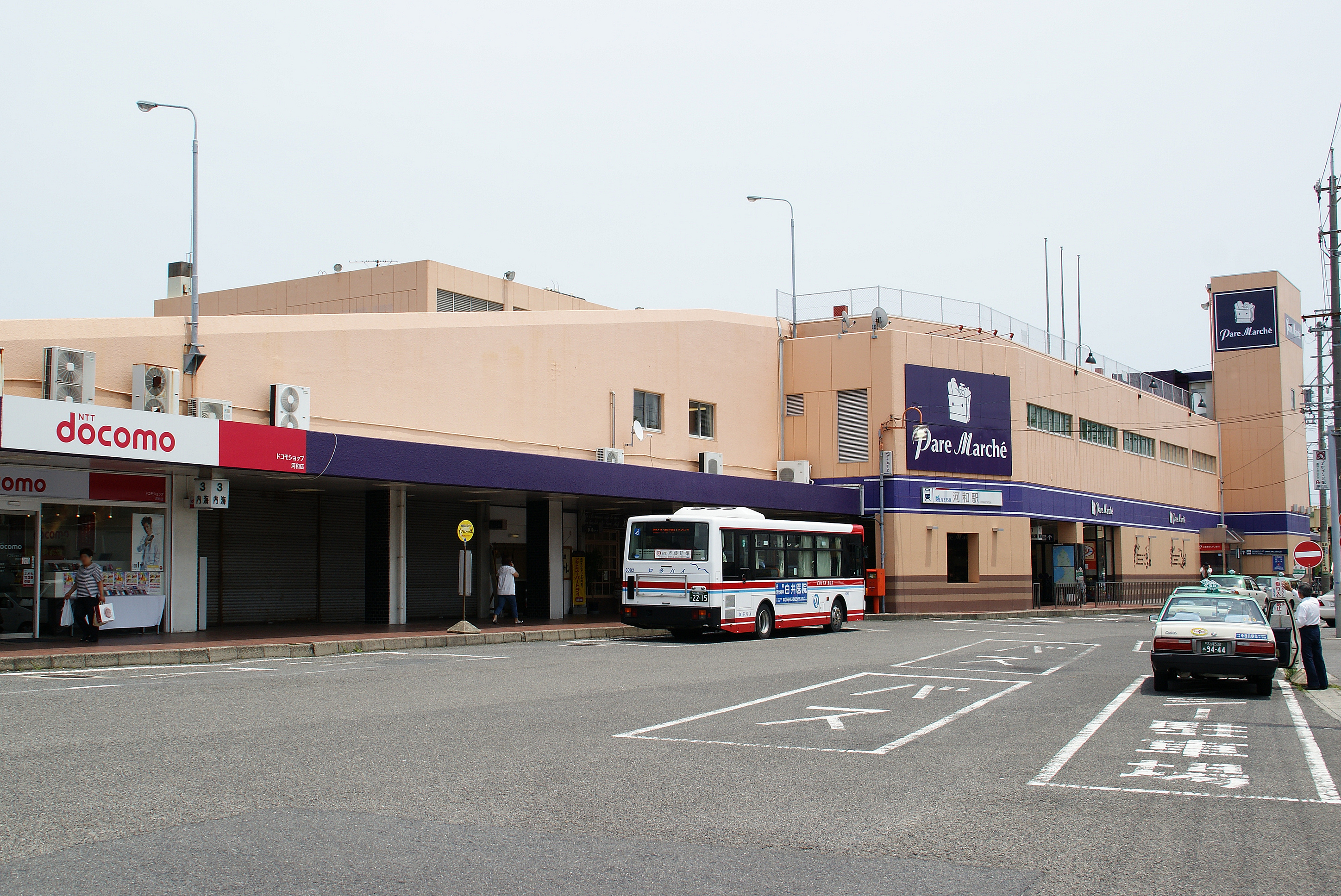 Nagoya Railroad, Kowa Station.(Mihama Town, Aichi Prefecture, Japan)